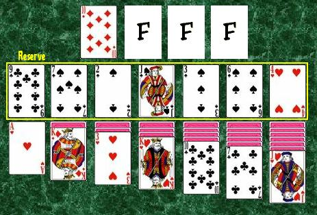 This is a diagram of the game of Agnes Bernauer, based on a simulated layout. The image is made in Microsoft Paint and the cards used were based on the SVG Playing Cards.